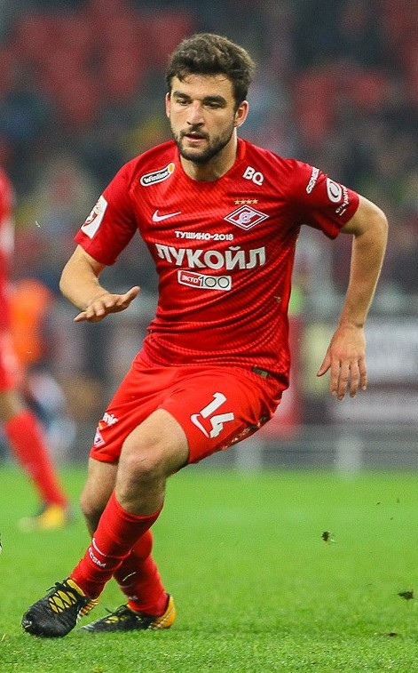 Georgi Dzhikiya